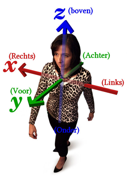 Three dimensions showed with model with Dutch language tags.